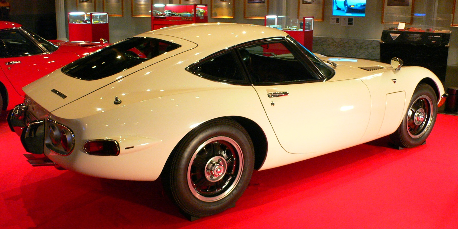 Toyota_2000GT(1969) photographed in MEGAWEB.